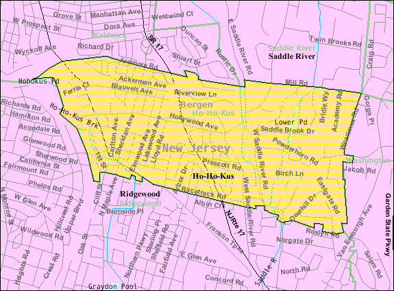 U.S. Census Bureau map of Ho-Ho-Kus